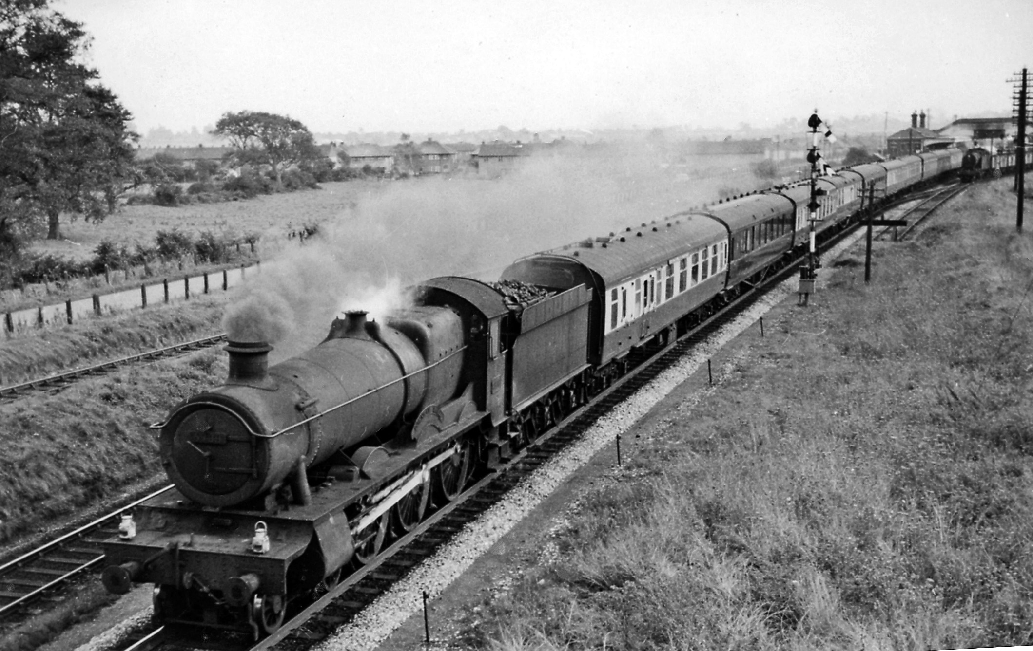 Penzance - Swansea express beyond Patchway station. View SE, towards Filton Junction and Bristol or Swindon and London; ex-GWR Bristol & South Wales main line. The 07.55 from Penzance has come via Exeter and Bristol Temple Meads and is due at Swansea at 17.15, headed by 4-6-0 No. 6908 'Downham Hall' (built 11/40, withdrawn 7/65). Patchway station can be seen on the right, with a Down freight waiting in the loop with a 2-8-0T. (See also ST6081 : Cardiff - Bristol train near Patchway for the opposite direction.